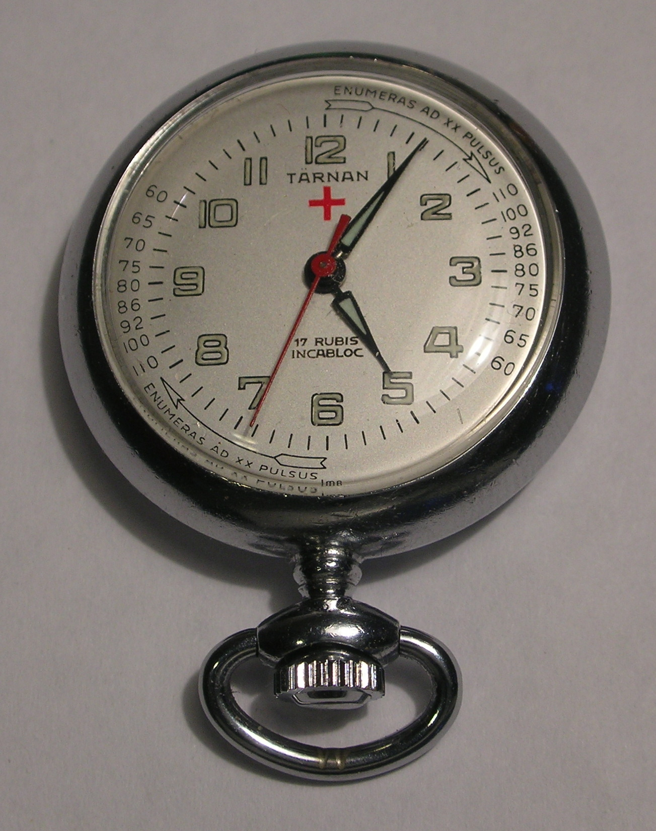 Pocket watch for hospitals. Made for hanging upside-down, it features instructions in Latin for measuring a patient's pulse. Made by Swedish company Tärnan.